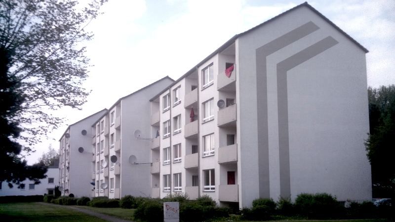 Apartment house in Düpp, Viersen, Germany